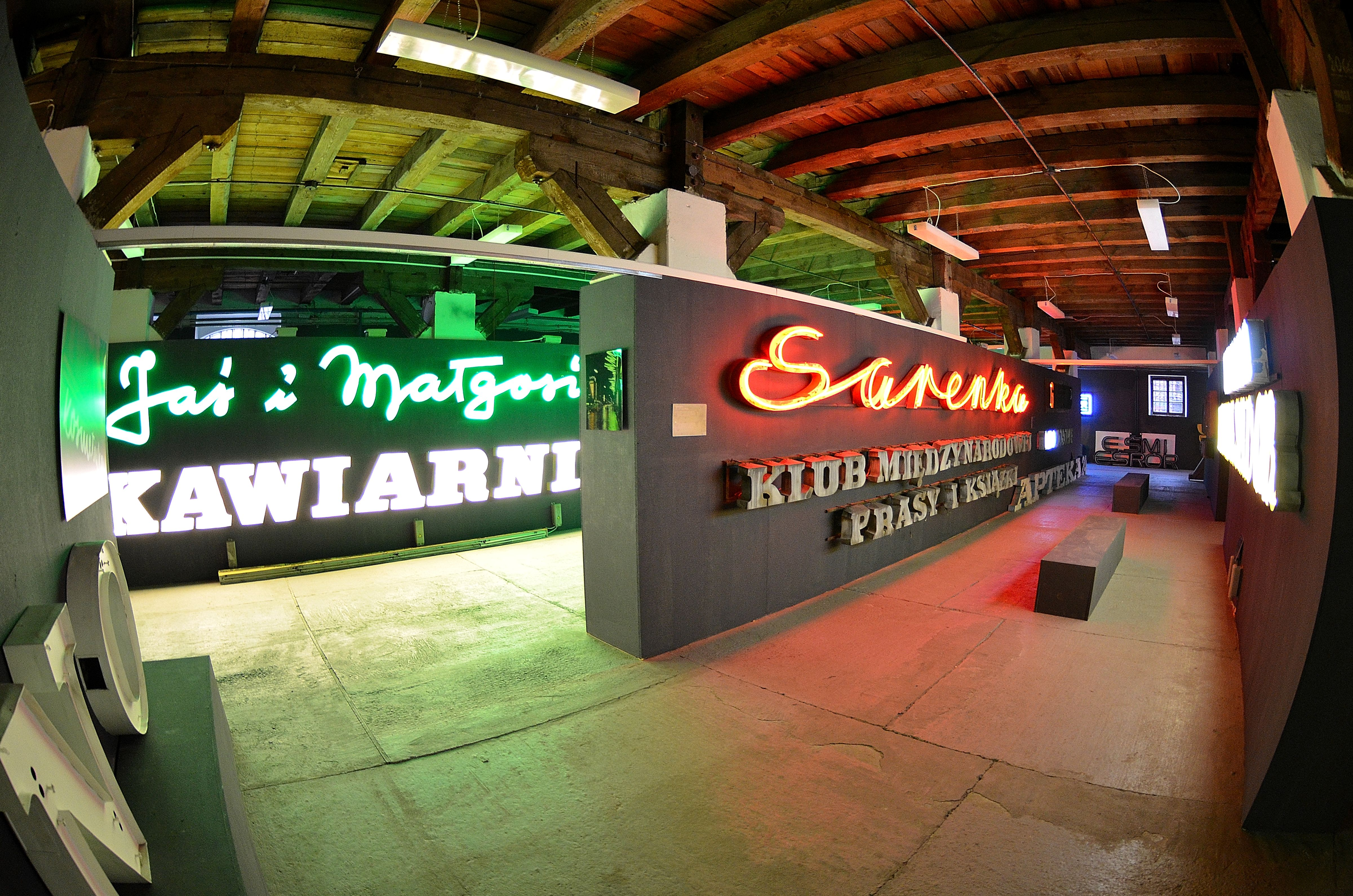 The Neon Museum at 25 Mińska Street in Warsaw